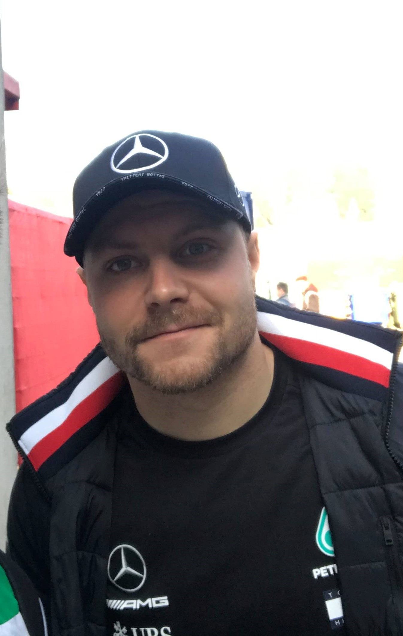 2019 Formula One tests Barcelona, Bottas.